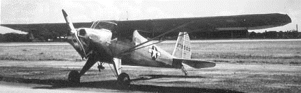 Luscombe UC-90 (Model 8B) utility aircraft, s/n 42-79550.